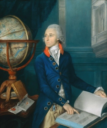 Portrait of John Goodricke (1764-1786), the astronomer who famously studied the variable star Algol and other variable stars. The picture is said, by a Goodricke descendant, to have been painted in 1785 by James Scouler. See C. A. Goodricke's letter at Monthly Notices of the Royal Astronomical Society, 1912, volume 73(11), pages 3 – 4.